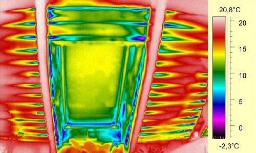 Infrared image of a leaky roof window under pressure test using a blower door (See also: Natural light photo of the same window)